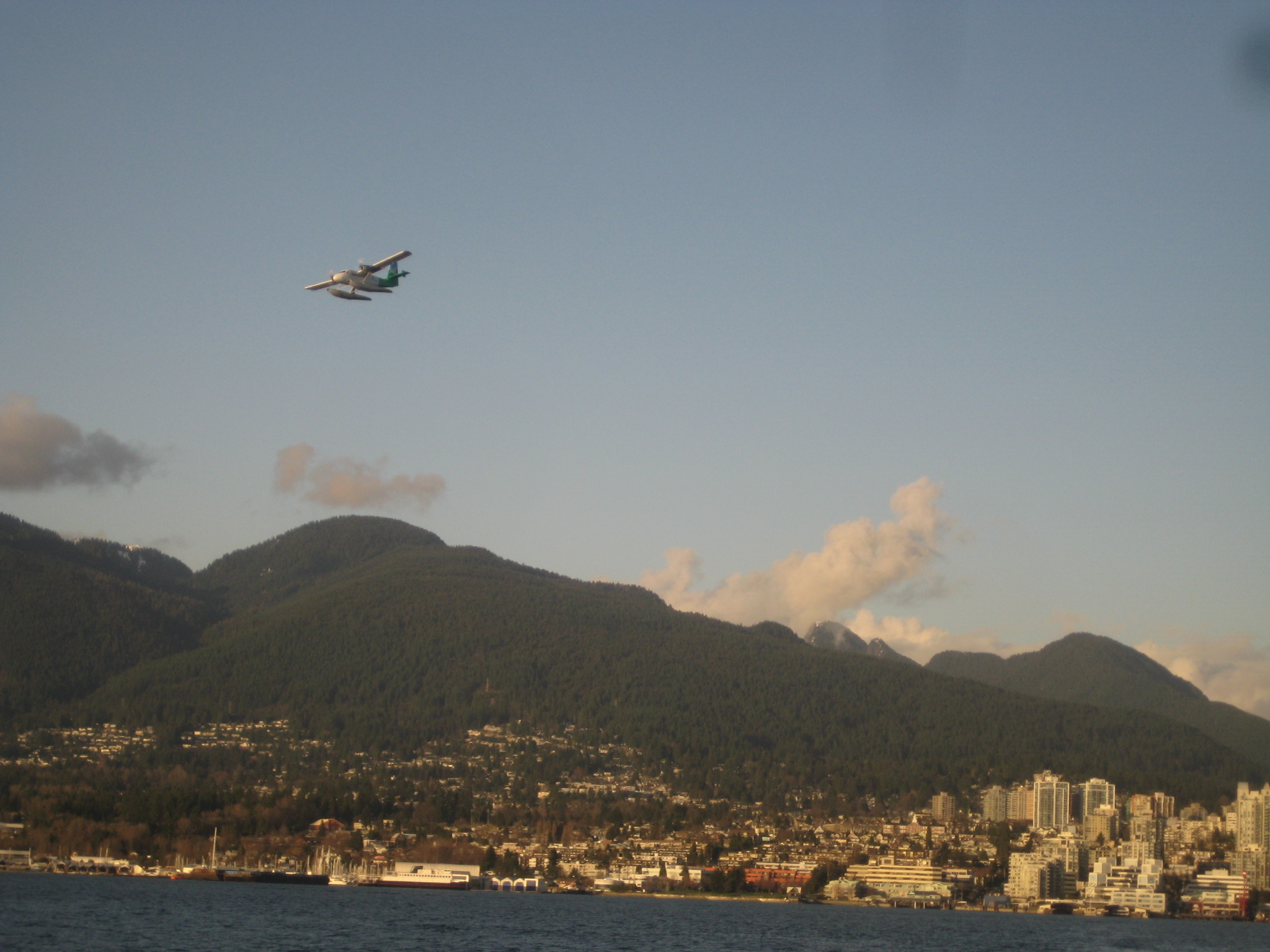 View of North Vancouver from the back of the Sea Bus